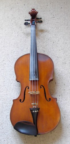 self made photograph of a viola